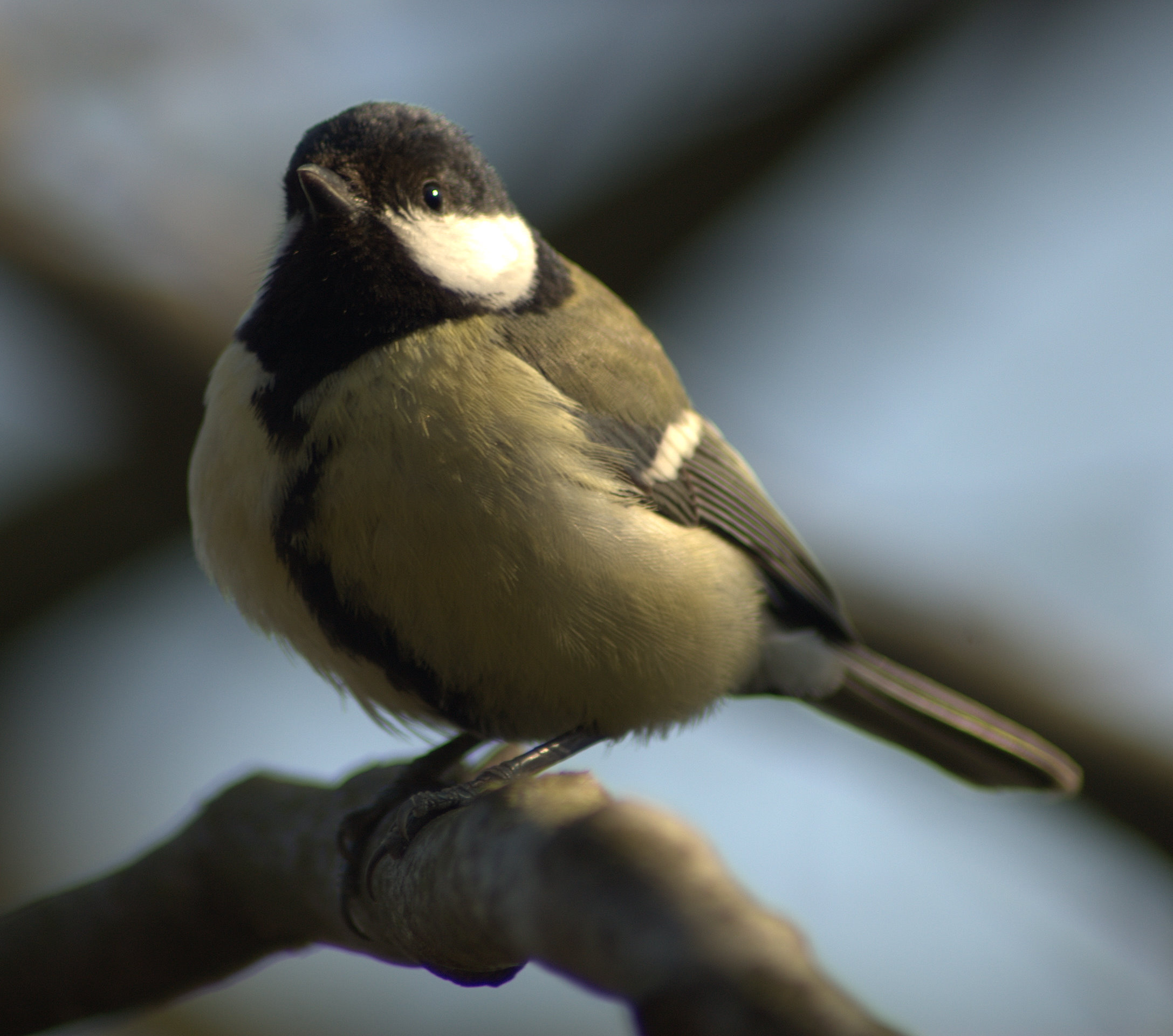 This is an adult female of species Parus major. en: Great Tit sv: Talgoxe dk: Musvit de: Kohlmeise fr: Mésange charbonnière nl: Koolmees no: Kjøtmeis (norweigian) pl: Sikora bogatka (polish) fi: Talitiainen (finnish) tr: Büyük baştankara (turkish) Camera: Nikon D50 Location: Botanical garden in Copenhagen, Denmark.